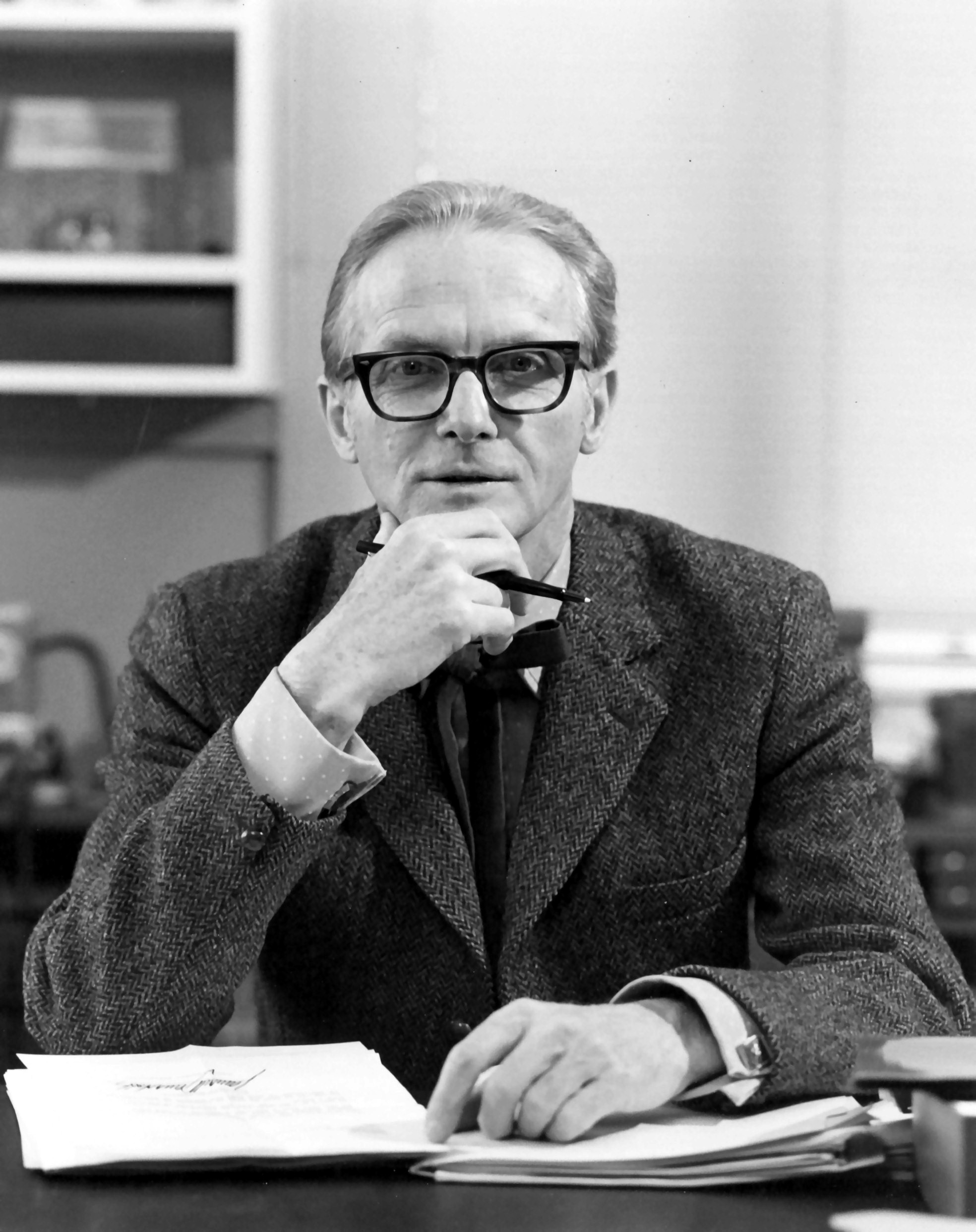 Photo of William N. Lipscomb, Jr. at his desk.